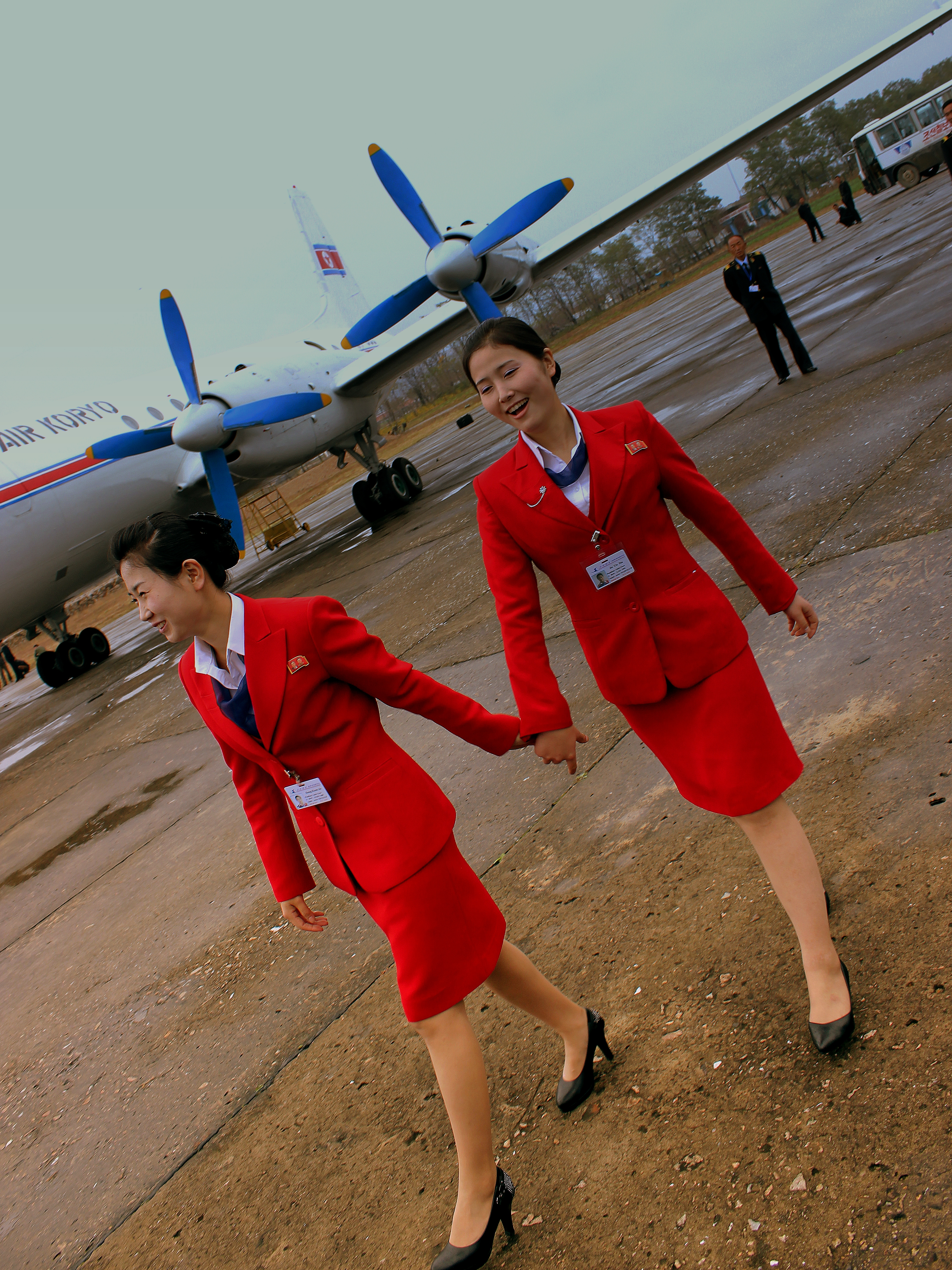 AIR KORYO IL18 STEWARDESSES AT ORANG MOUNT CHILBO AIRPORT DPR KOREA OCT 2012